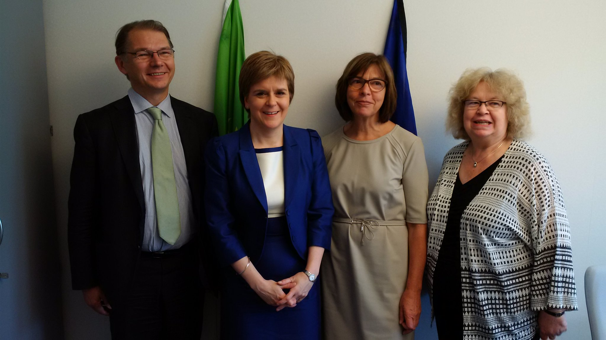 First Minister of Scotland, Nicola Sturgeon meets with MEPs to discuss Scotland's future relationship with the EU.